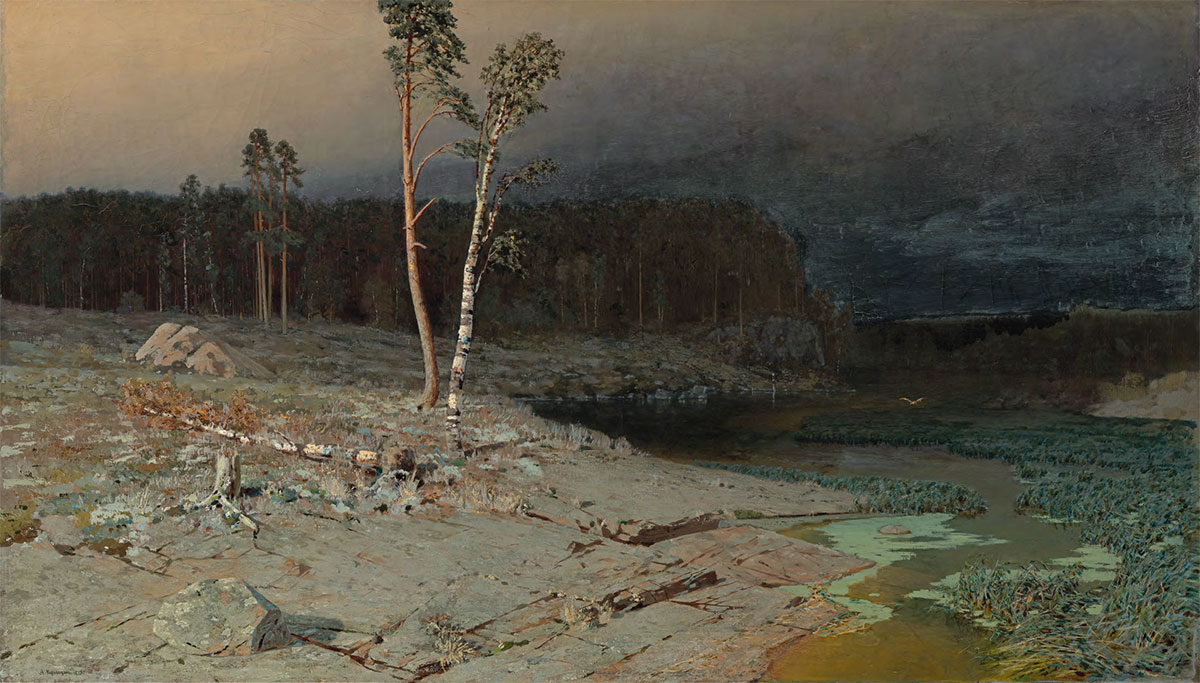 On Valaam island (painting by Arkhip Kuindzhi, 1873)